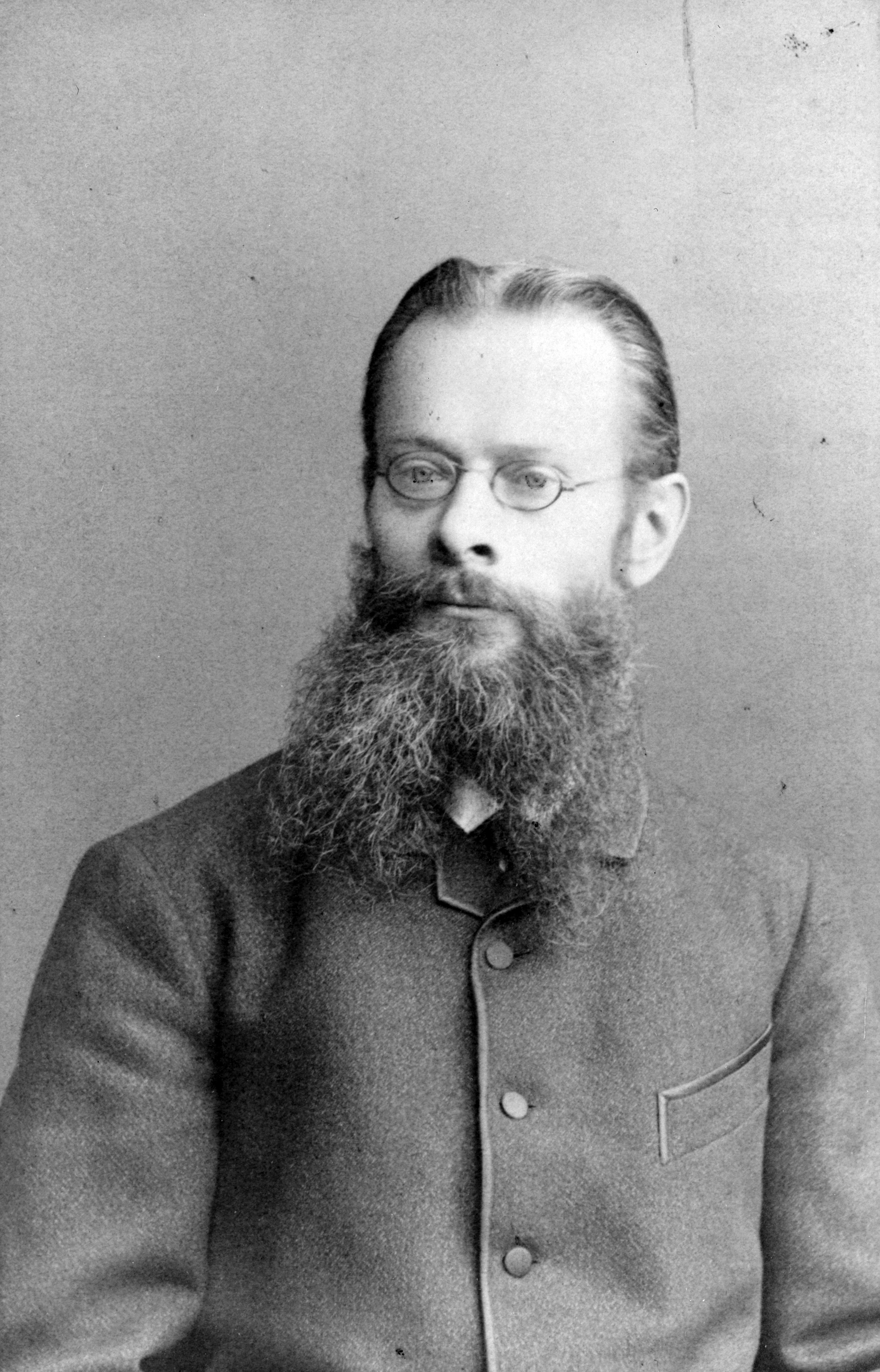 The German bacteriologist Karl Bernhard Lehmann (* 27 September 1858 in Zürich (CH), † 30 January 1940) in 1890.